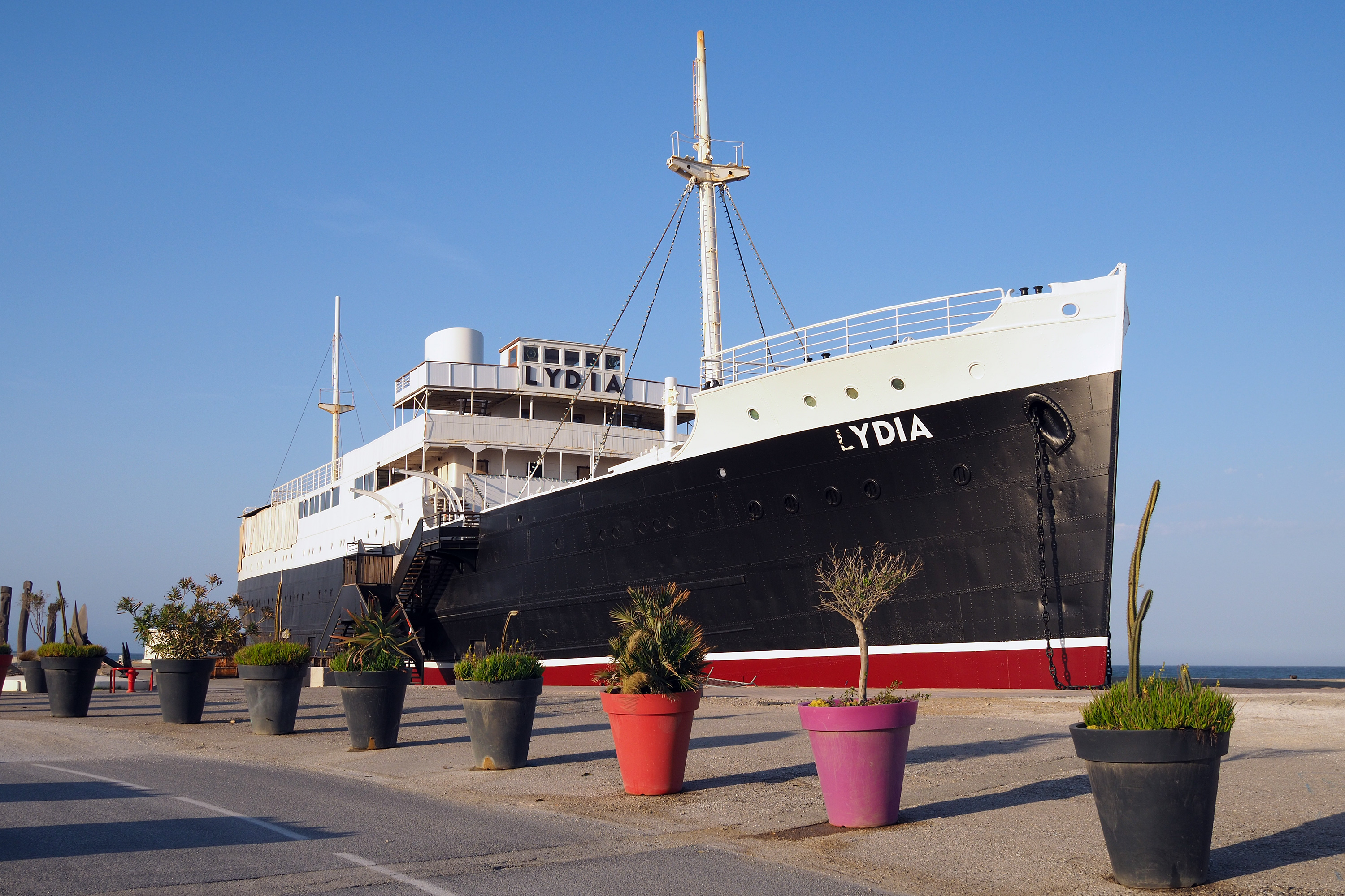 Le Lydia 2019, Le Barcares